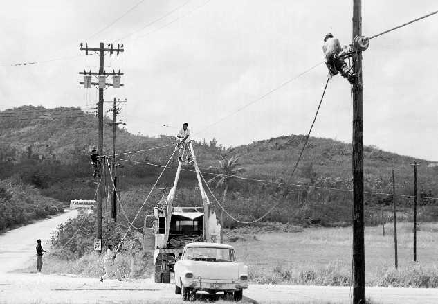 Installing new power lines at Garapan in 1969